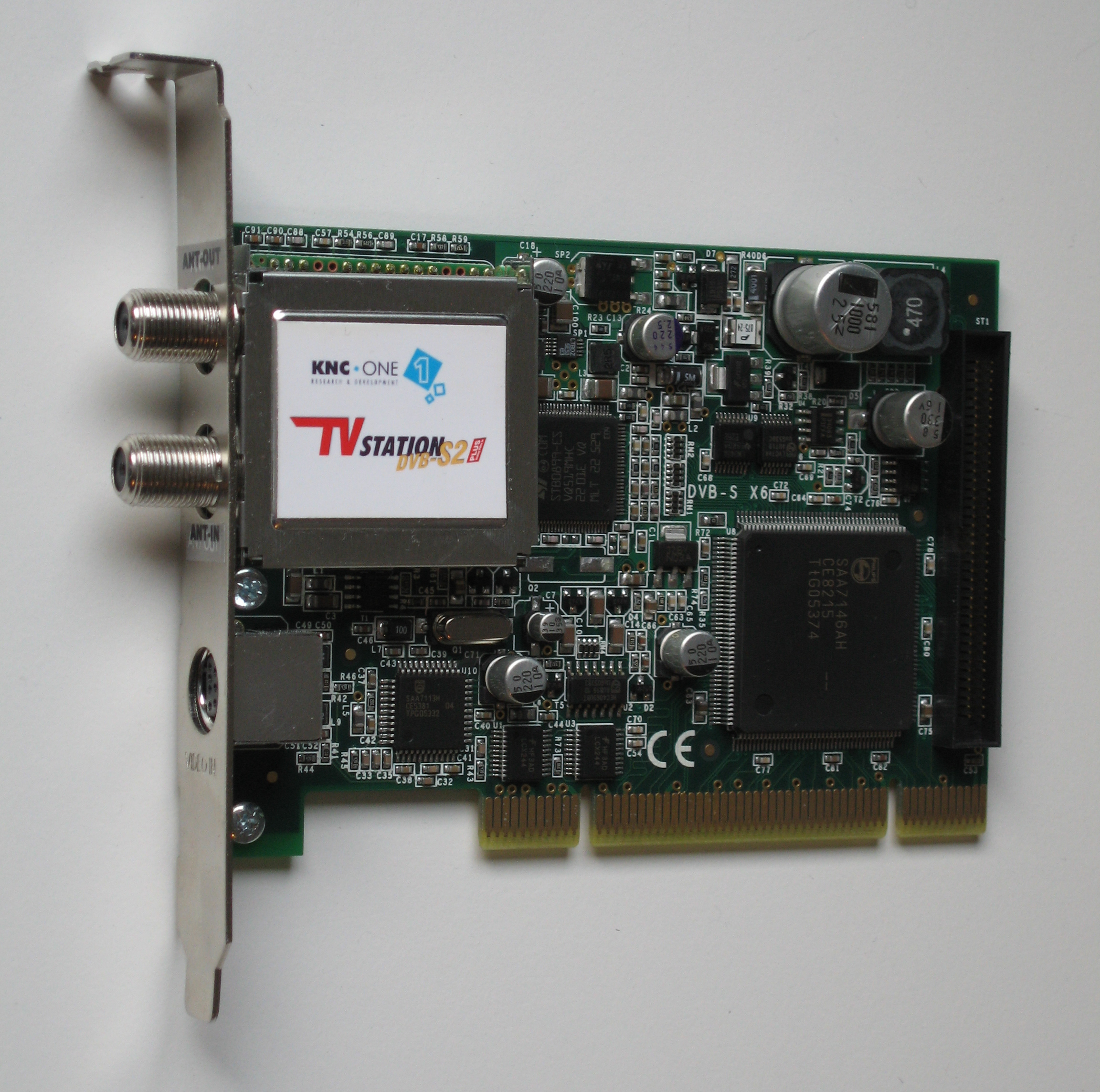 A test version of the dvb-s2 tv-card "TV-STATION DVB-S2 PLUS" by "KNC1". tv-card for pci-interface.